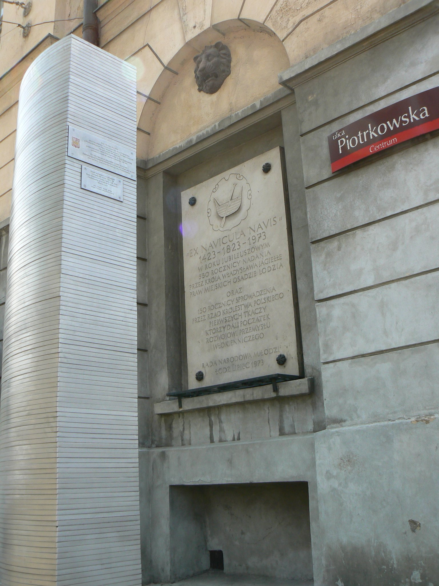 Obelisk of Piotrkowska Street, set to celebrate the 185th anniversary of the conversion of Piotrkowska route into the street.